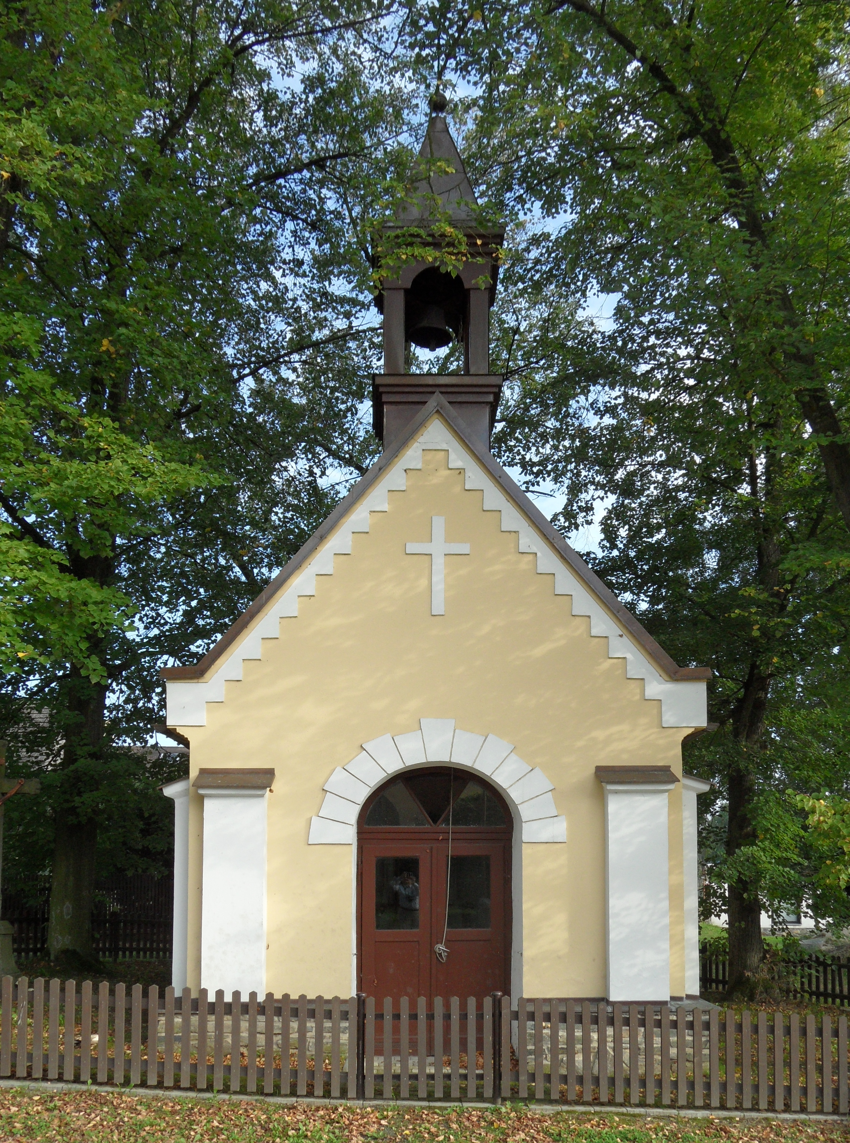 Klucké Chvalovice (Zbýšov) A. Chapel of Saint Anna, Kutná Hora District, the Czech Republic.